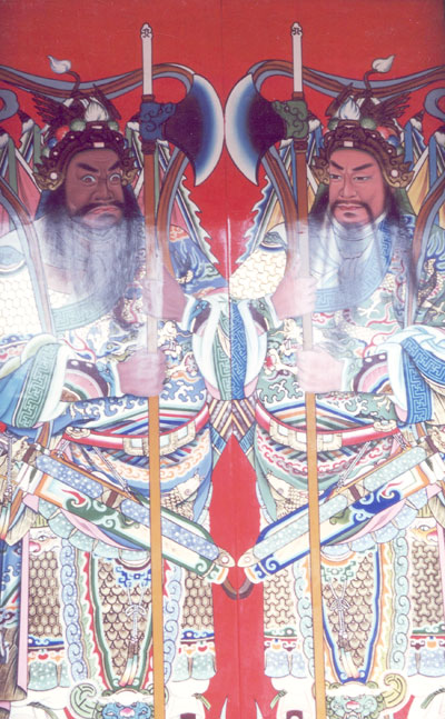 Door gods at a temple in a Taichung, Taiwan neighborhood behind the central train station. 1989.